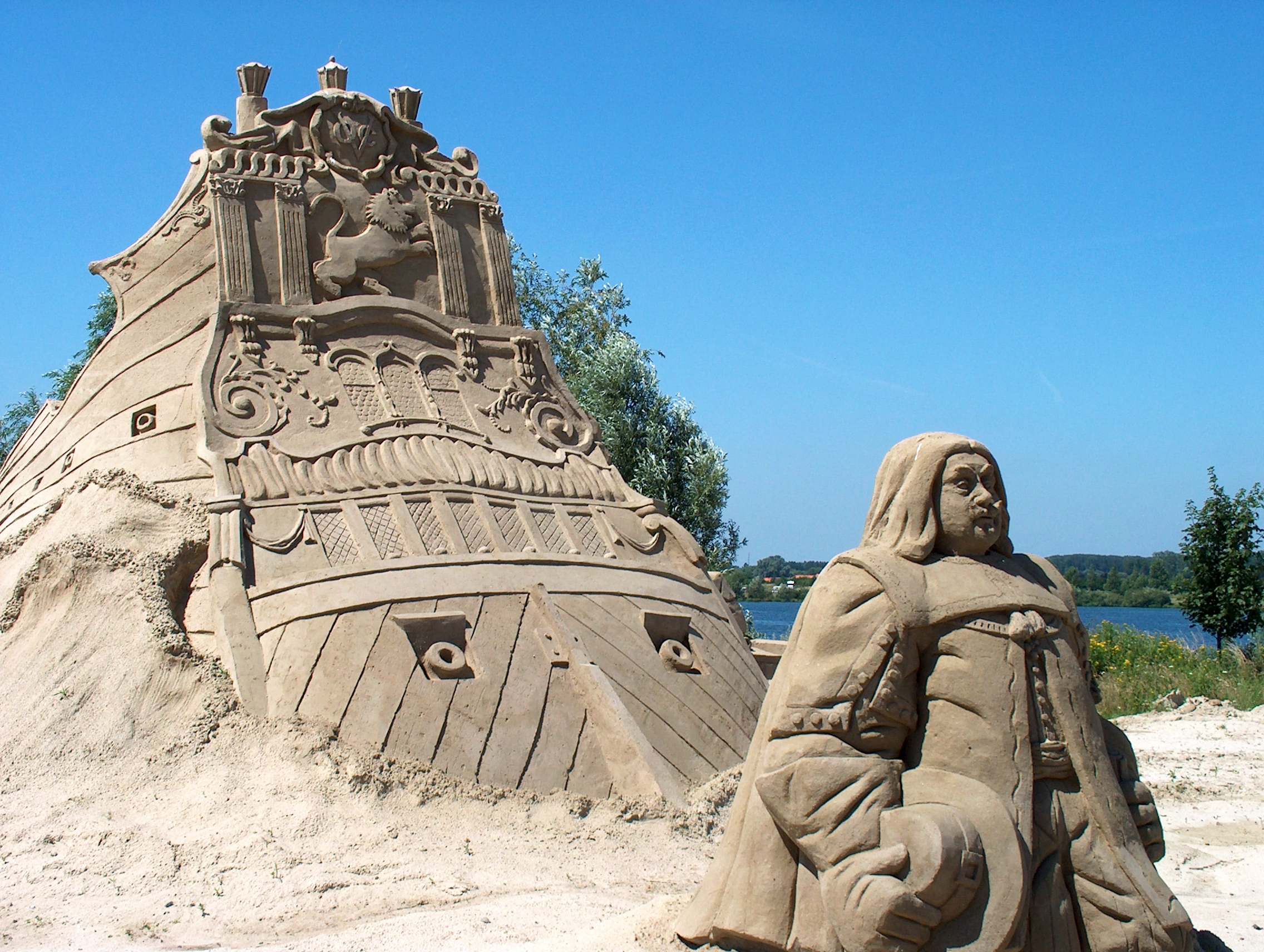 Sandsculptures of the summerfestival in Thorn (Netherlands)